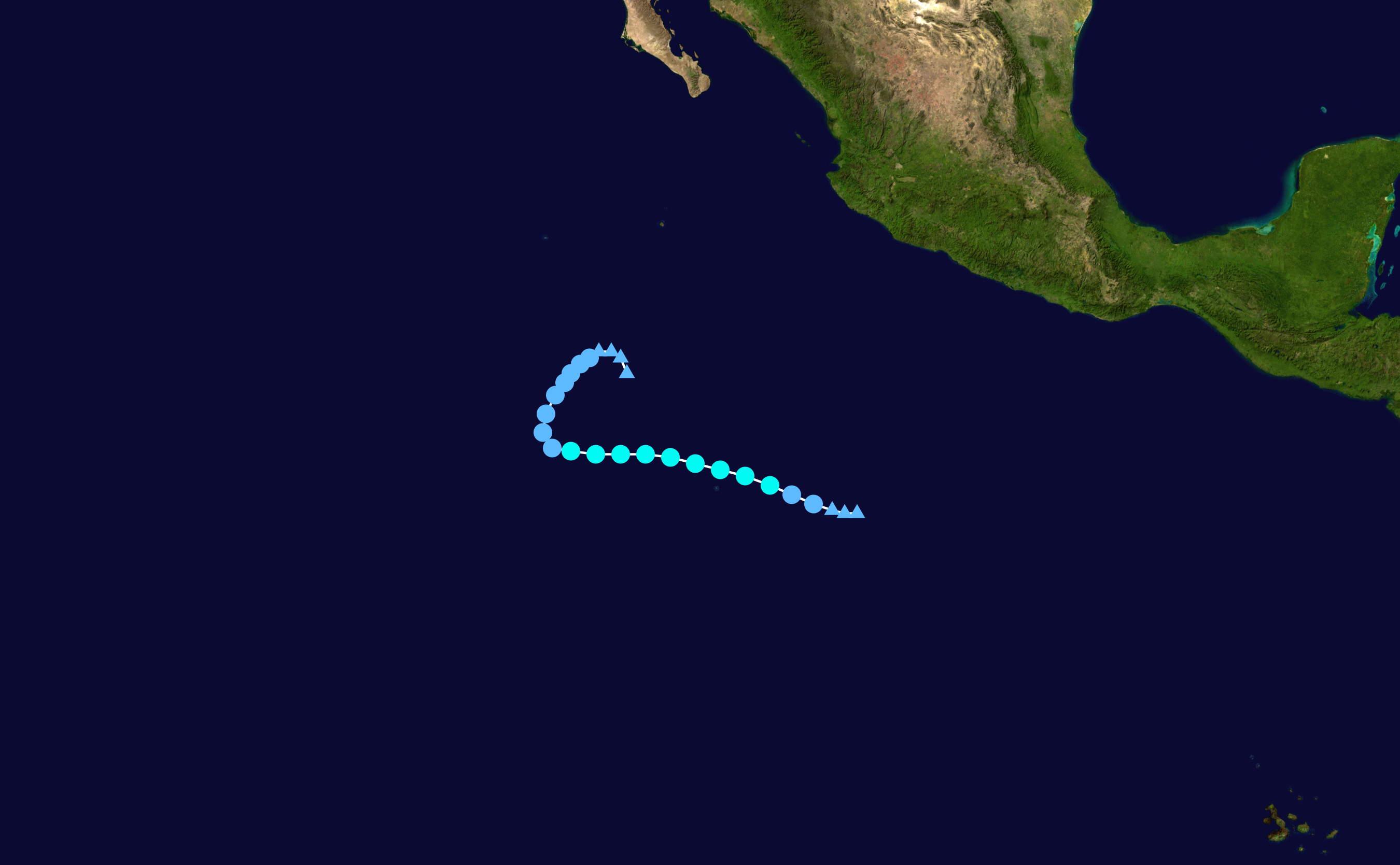 Track map of Tropical Storm Aletta of the 2012 Pacific hurricane season. The points show the location of the storm at 6-hour intervals. The colour represents the storm's maximum sustained wind speeds as classified in the Saffir–Simpson scale (see below), and the shape of the data points represent the nature of the storm, according to the legend below. Saffir–Simpson scale Tropical depression≤38 mph≤62 km/h Category 3111–129 mph178–208 km/h Tropical storm39–73 mph63–118 km/h Category 4130–156 mph209–251 km/h Category 174–95 mph119–153 km/h Category 5≥157 mph≥252 km/h Category 296–110 mph154–177 km/h Unknown Storm type Tropical cyclone Subtropical cyclone Extratropical cyclone / Remnant low / Tropical disturbance / Monsoon depression